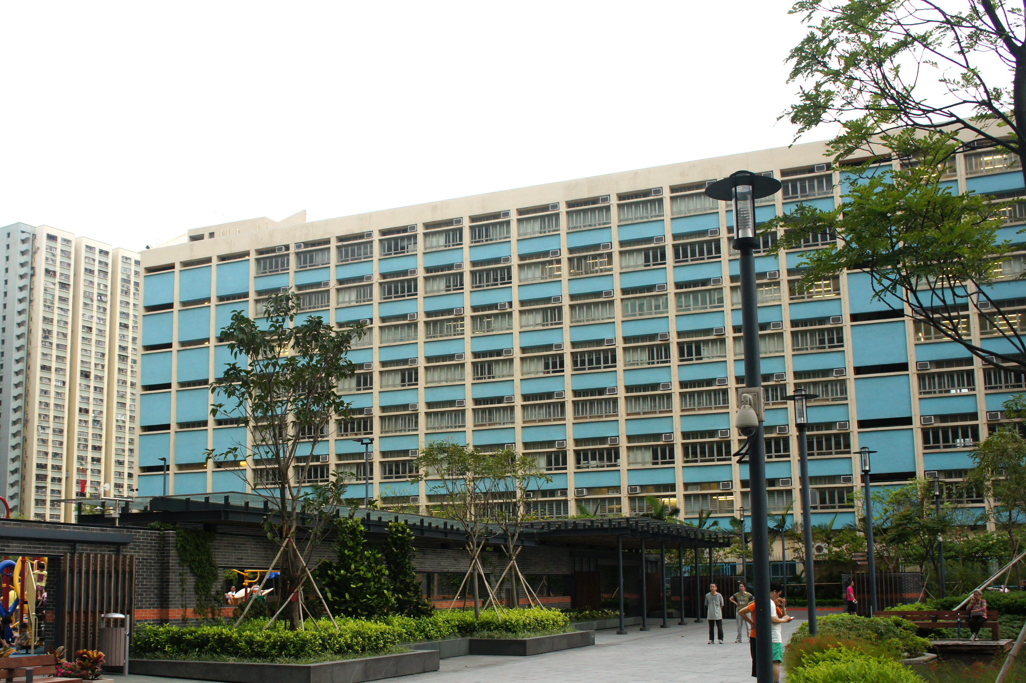 Munsang College (Hong Kong Island), 26 Tai On Street, Sai Wan Ho, Hong Kong.